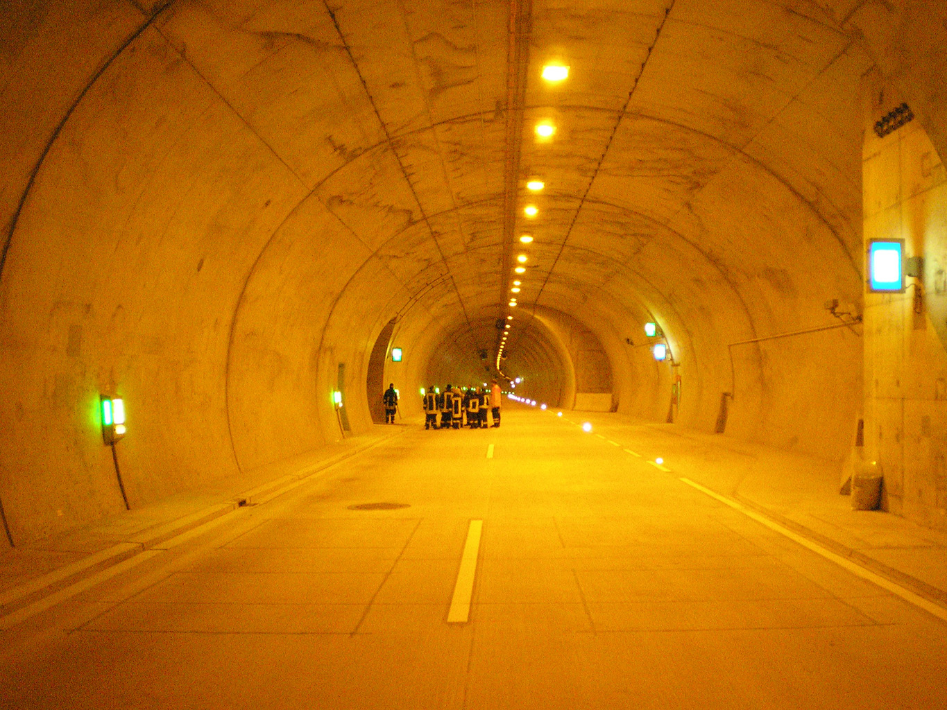 Interior view of Heidkopf street tunnel - Motorway A38 towards Göttingen